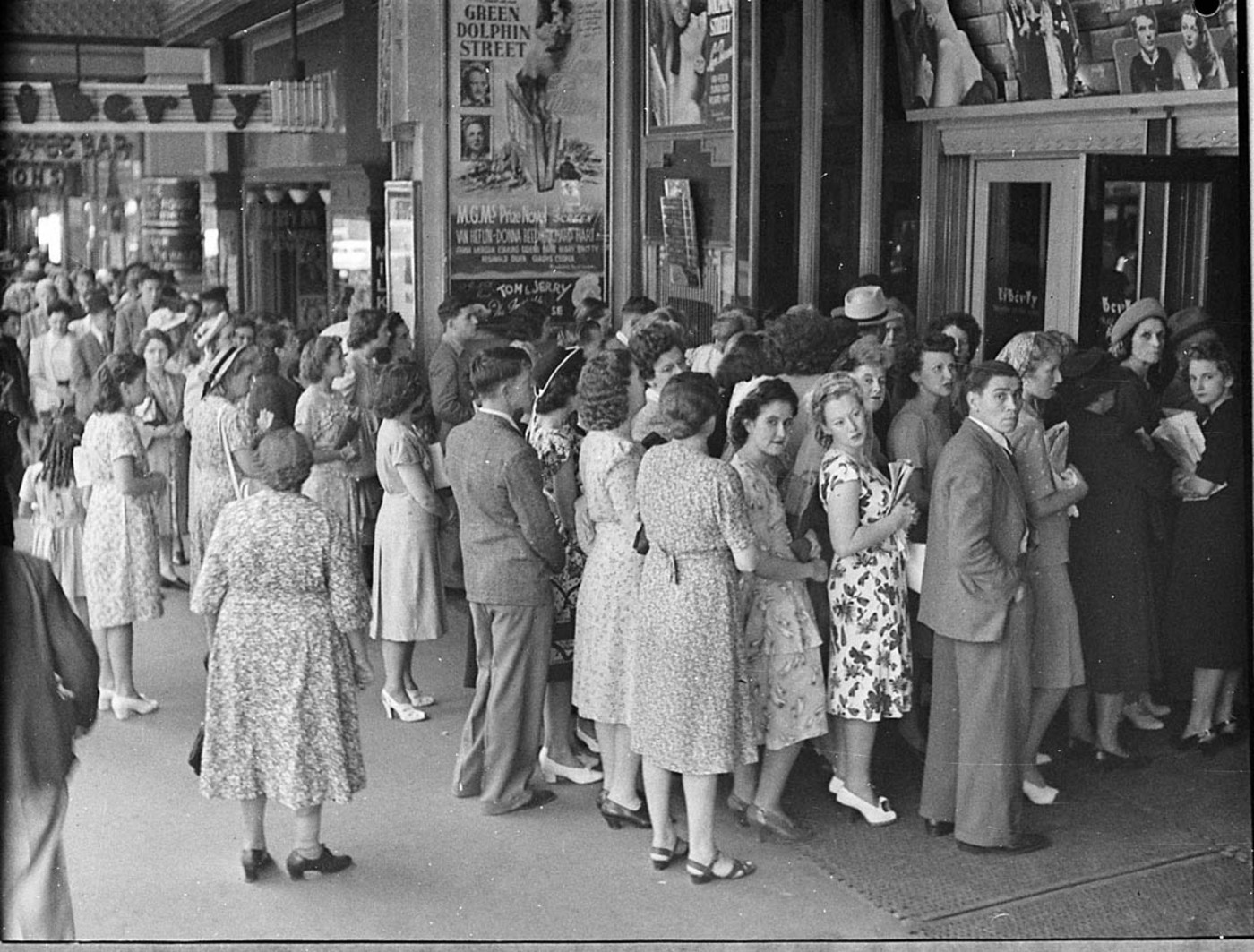 Liberty Theatre premiere for the American film Green Dolphin Street (1947).